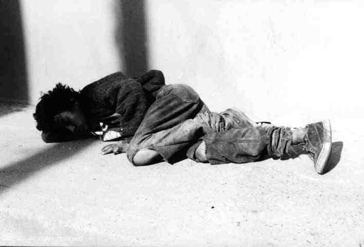 Homeless Kid in Bogotá, Colombia.